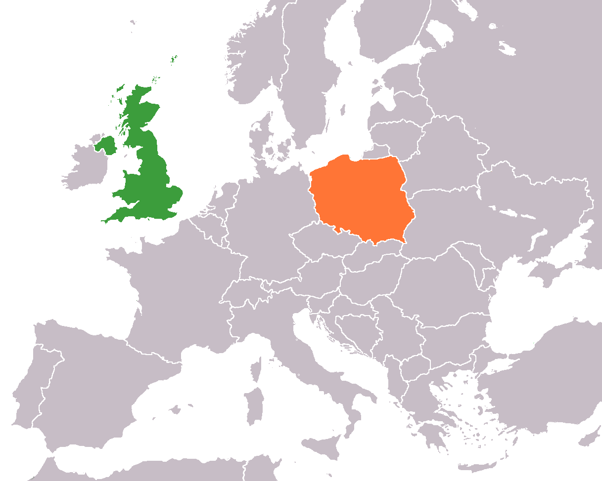 Map of Europe indicating the United Kingdom and Poland. For use in :Category:British-Polish relations and similar articles.